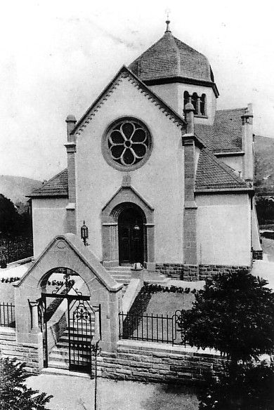 Synagogue of Weinheim (1906-1938) - destroyed by the nazis during Kristall Nacht